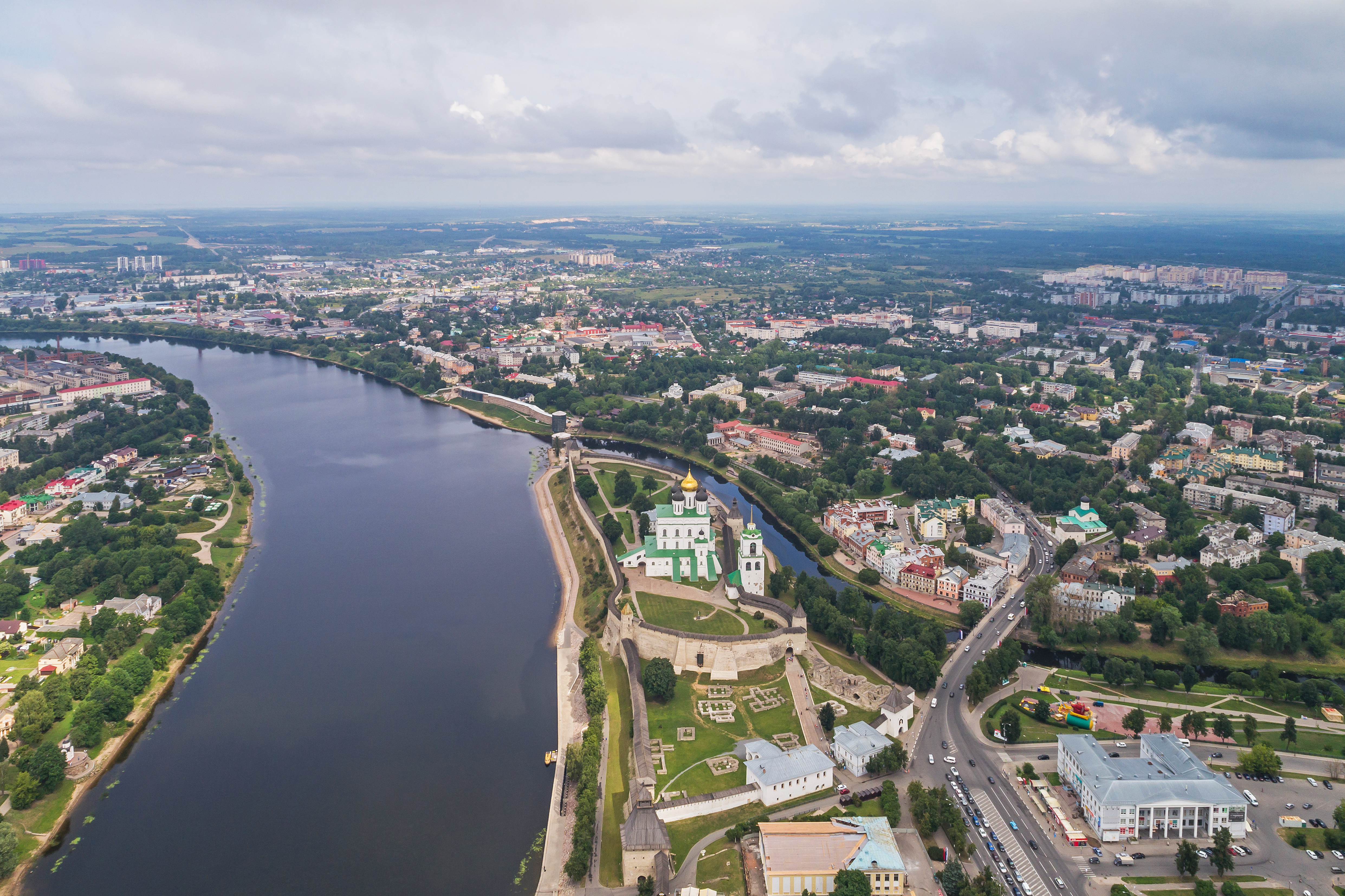 Aerial view of the Kremlin in Pskov, Russia